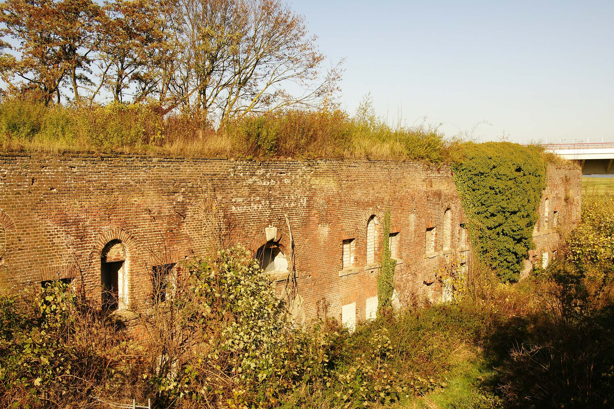 Fort Blücher Wesel